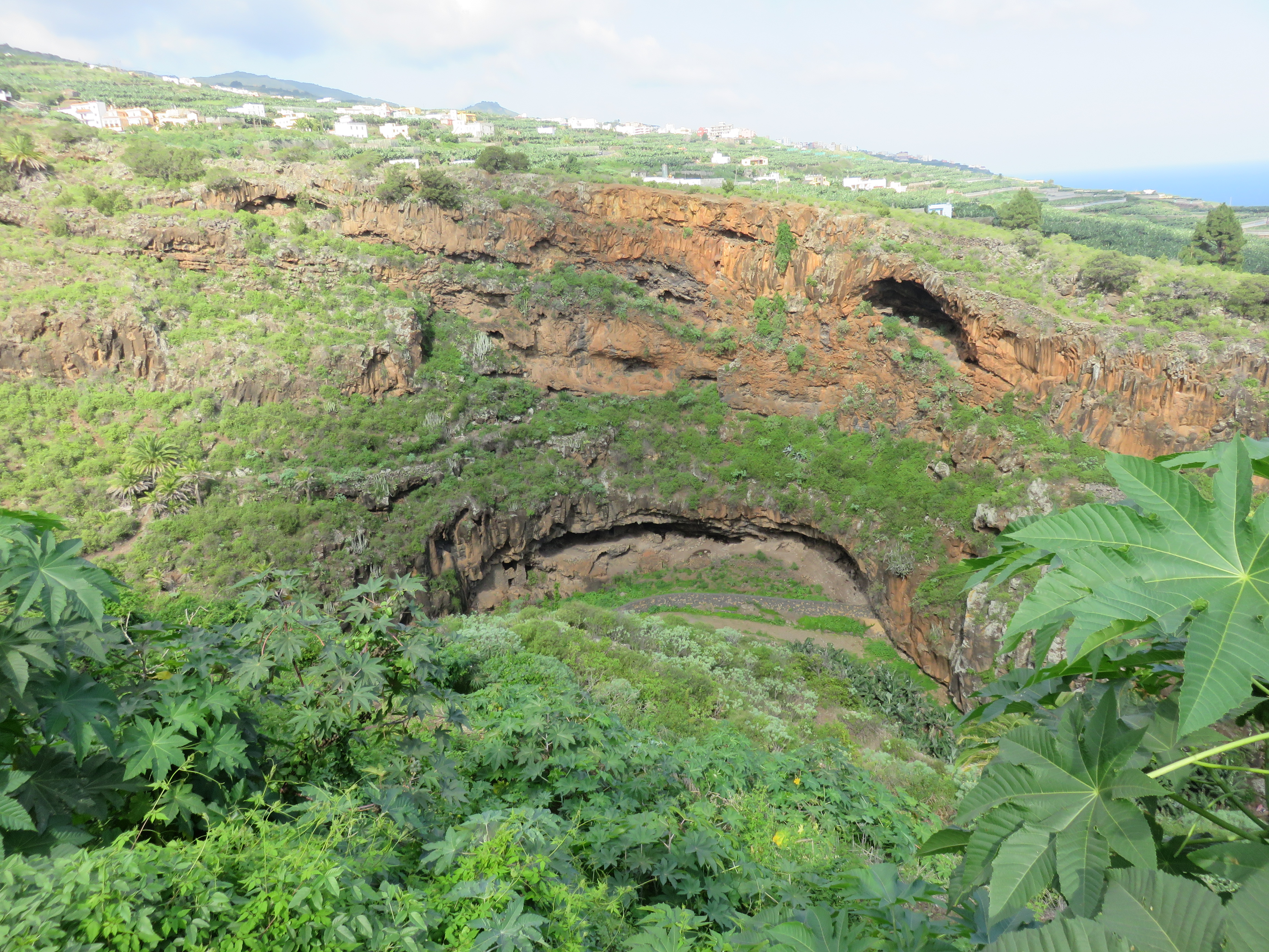 Cueva del Tendal in San Andrés y Sauces, La Palma